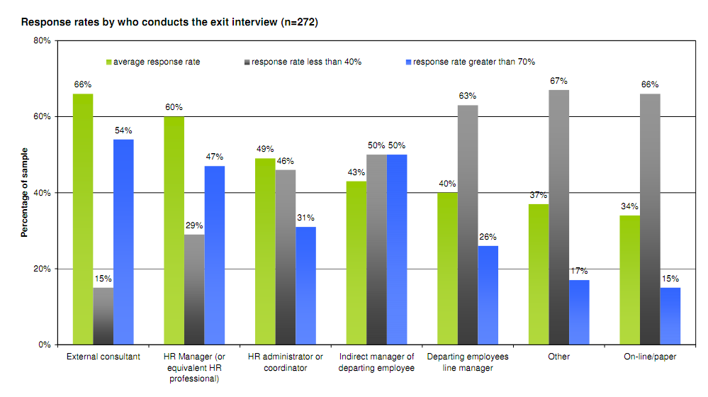 The percentage of departing employees who successfully complete an exit interview, according to who conducted the interview.